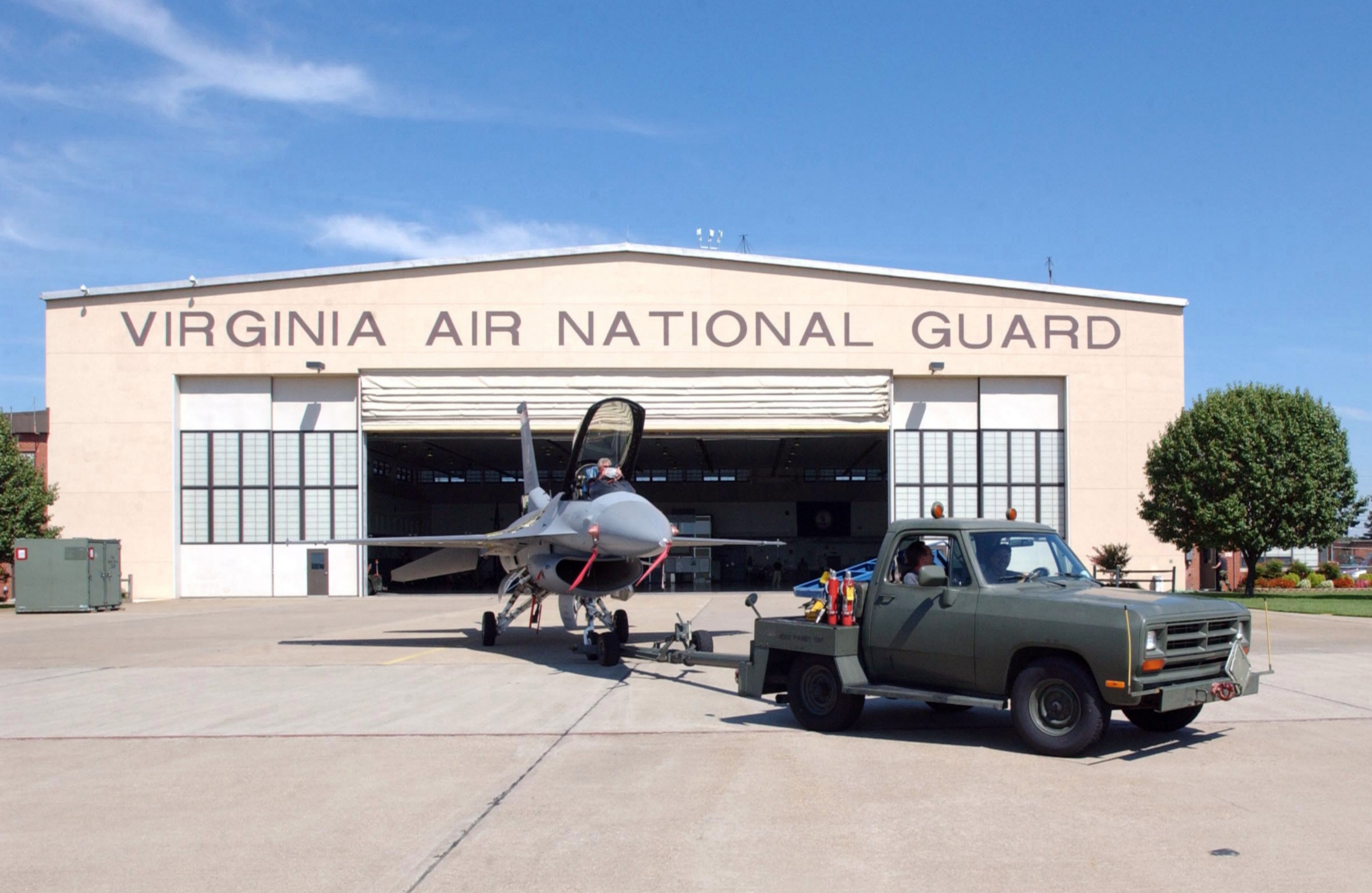 U.S. Air Force airmen of the 149th Fighter Squadron, 192nd Fighter Wing, Virginia Air National Guard, use a Bobtail vehicle to move a General Dynamics F-16C Fighting Falcon to a hangar at Langley Air Force Base in preparation for the approaching Hurricane Isabel on 17 September 2003.